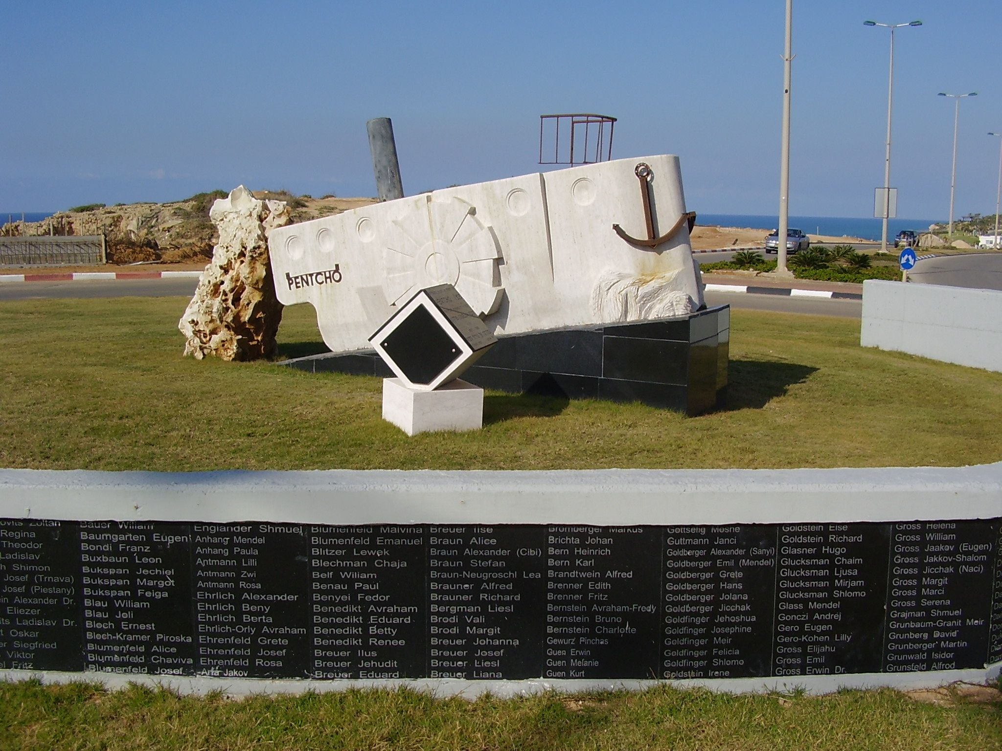 immigrant ship "pentcho" memorial in netanya, israel אנדרטה וקיר זכרון לספינת המעפילים "פנצ'ו" בנתניה